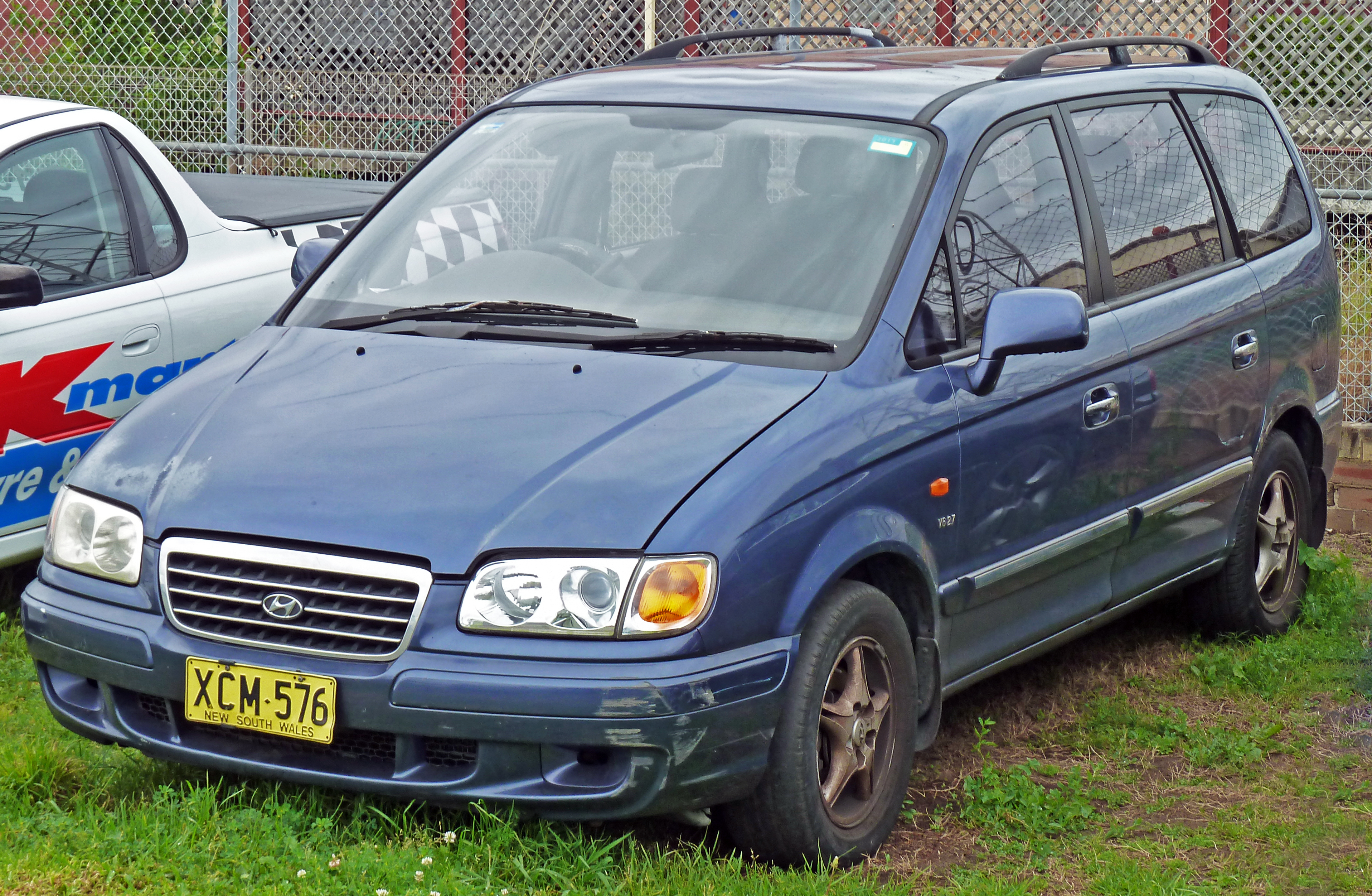 2001 Hyundai Trajet (FO) GLS van. Photographed in Chullora, New South Wales, Australia.